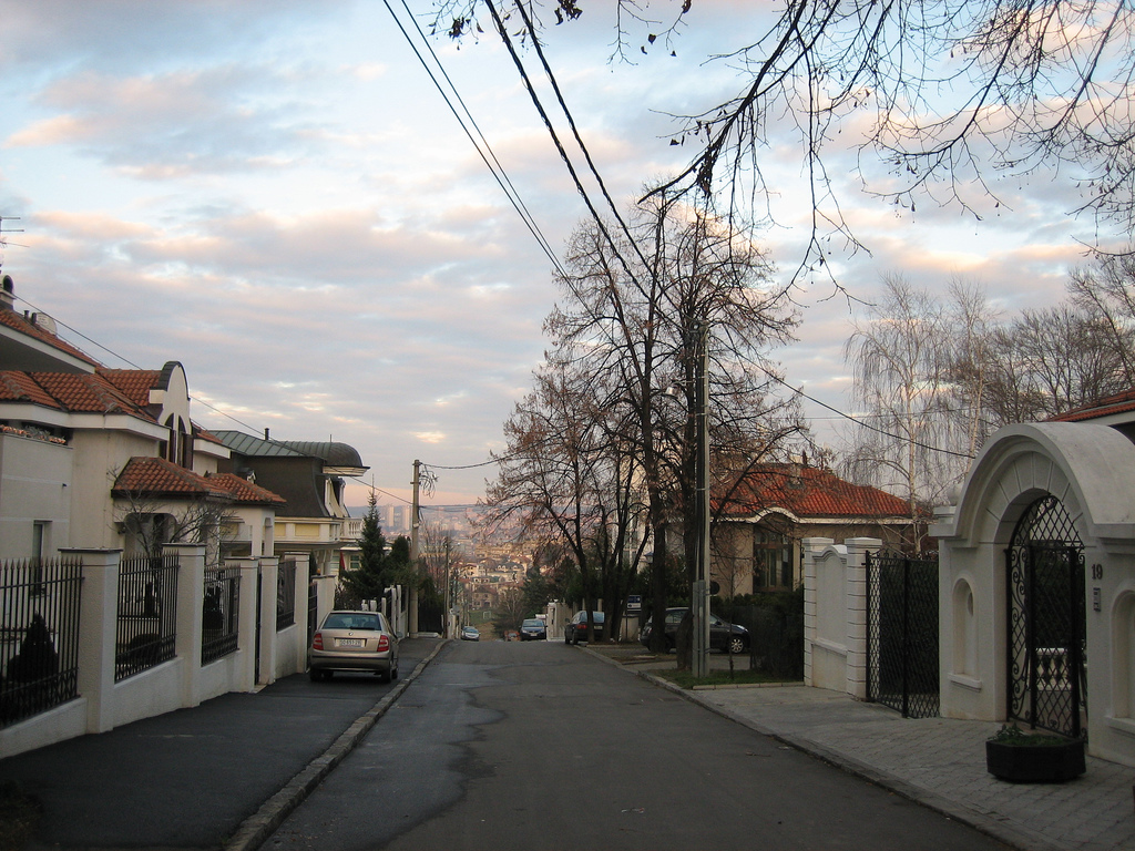 Street in the neighborhood of Denjini, Belgrade, Serbia